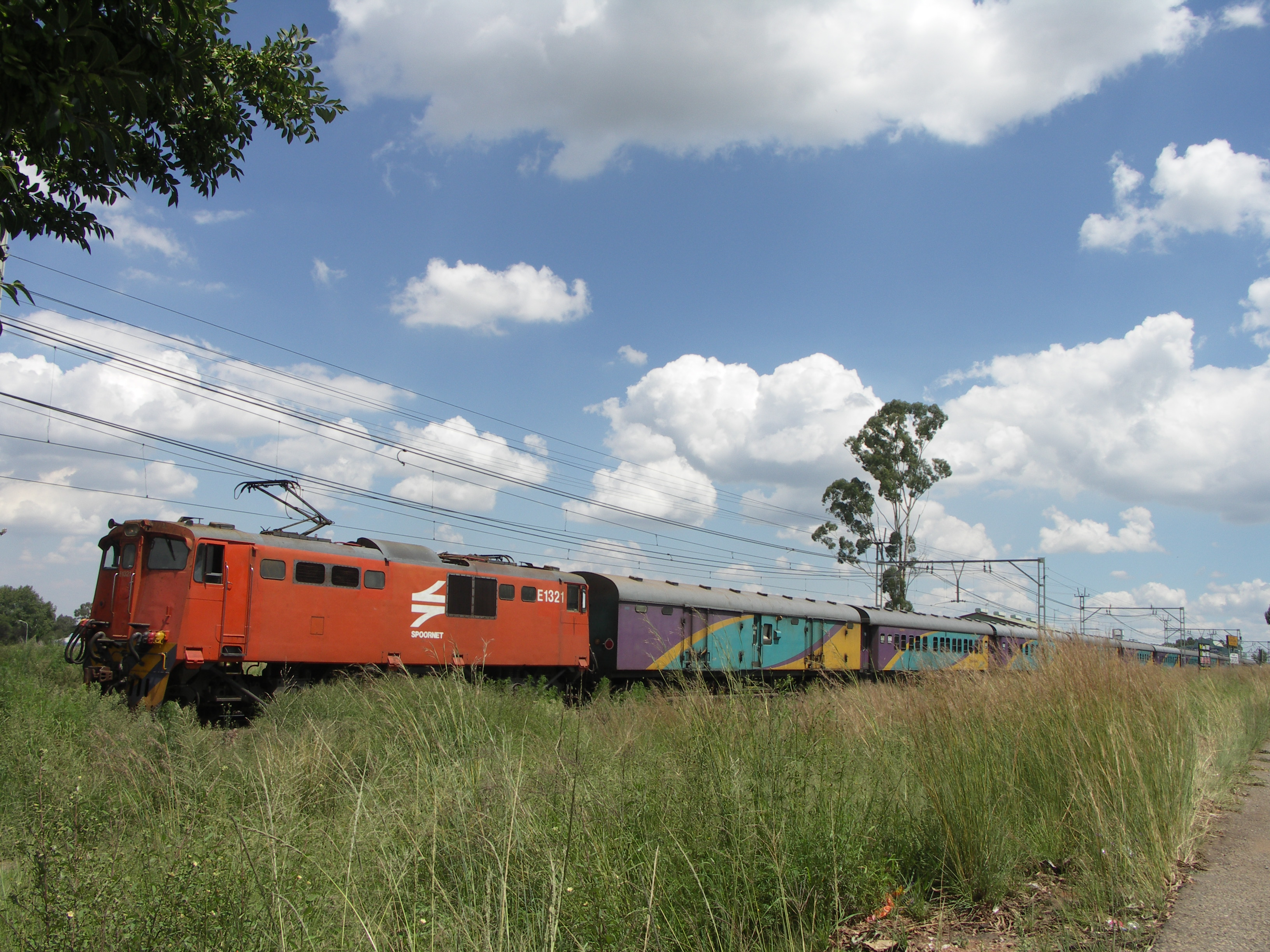 A Shosholoza Meyl train operated by Spoornet, led by Class 6E1 (Series 3) E1321 just outside Vereeniging, Gauteng, South Africa